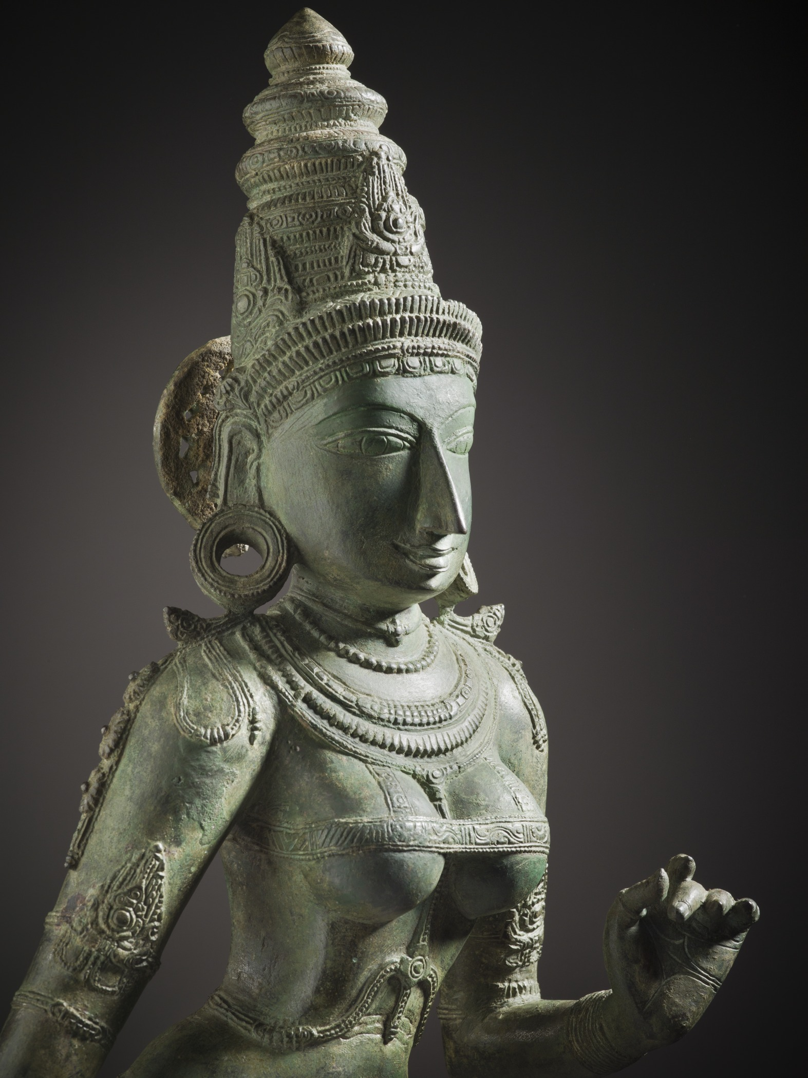 India, Tamil Nadu, 13th century Sculpture Copper alloy Gift of Anna Bing Arnold (M.70.5.2) South and Southeast Asian Art